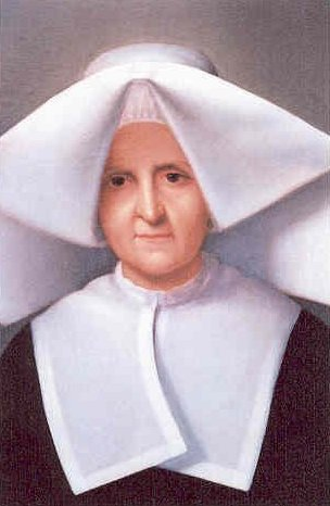 Jeanne Marie Rendu Rosalie Rendu (1786-1856)